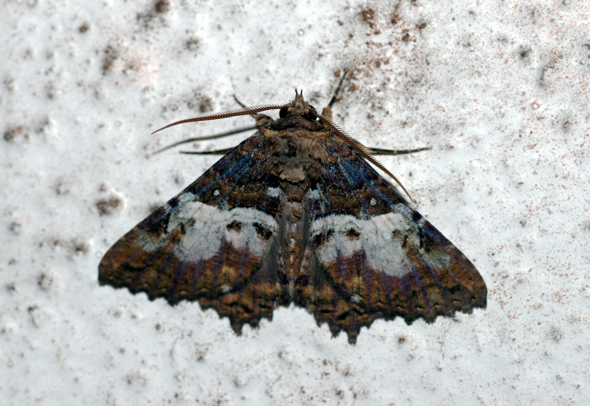 Malaysia, Fraser's Hill, March 2009